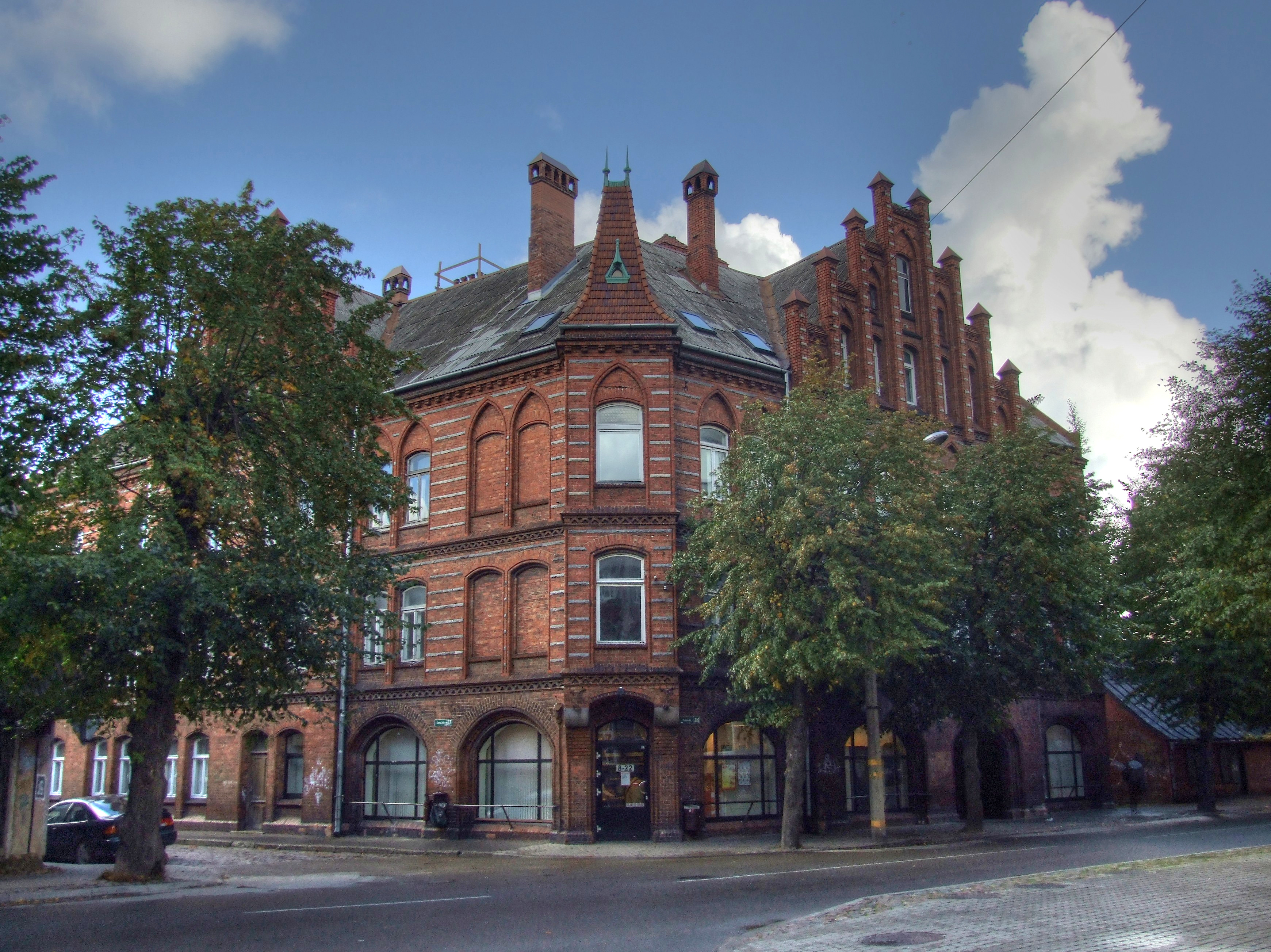 House on the corner of Peldu and Toma iela, Liepāja